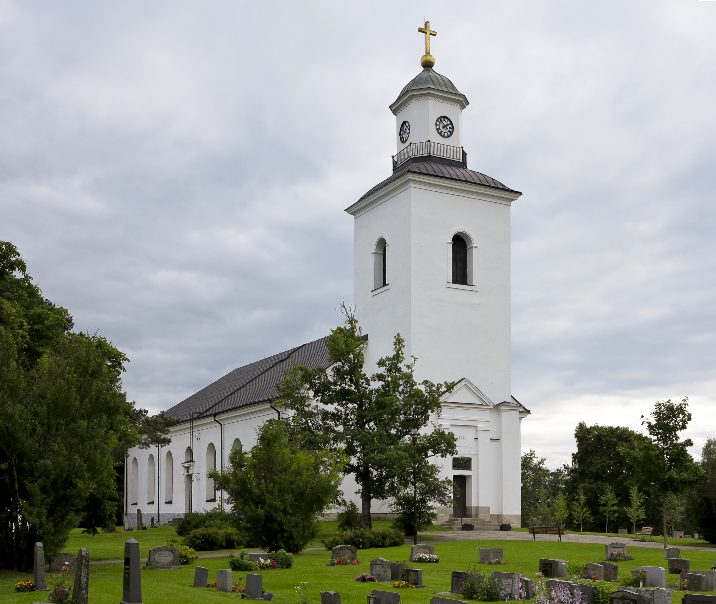 Bergsjö church, Diocese of Uppsala, Municipality of Nordanstig, Sweden. View